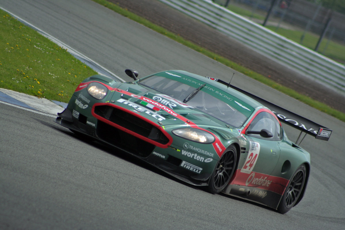 FIA GT Championship 7th May 2006 Silverstone